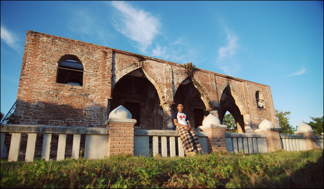 Krue Se Mosque or Krue Sae Mosque (Malay: Masjid Kerisek, Thai: มัสยิดกรือเซะ, RTGS: Matsayit Krue Se), is located in Pattani Province, Thailand.